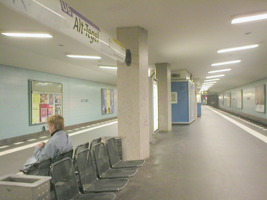 The Berlin U-Bahn station Alt-Tegel, line U6